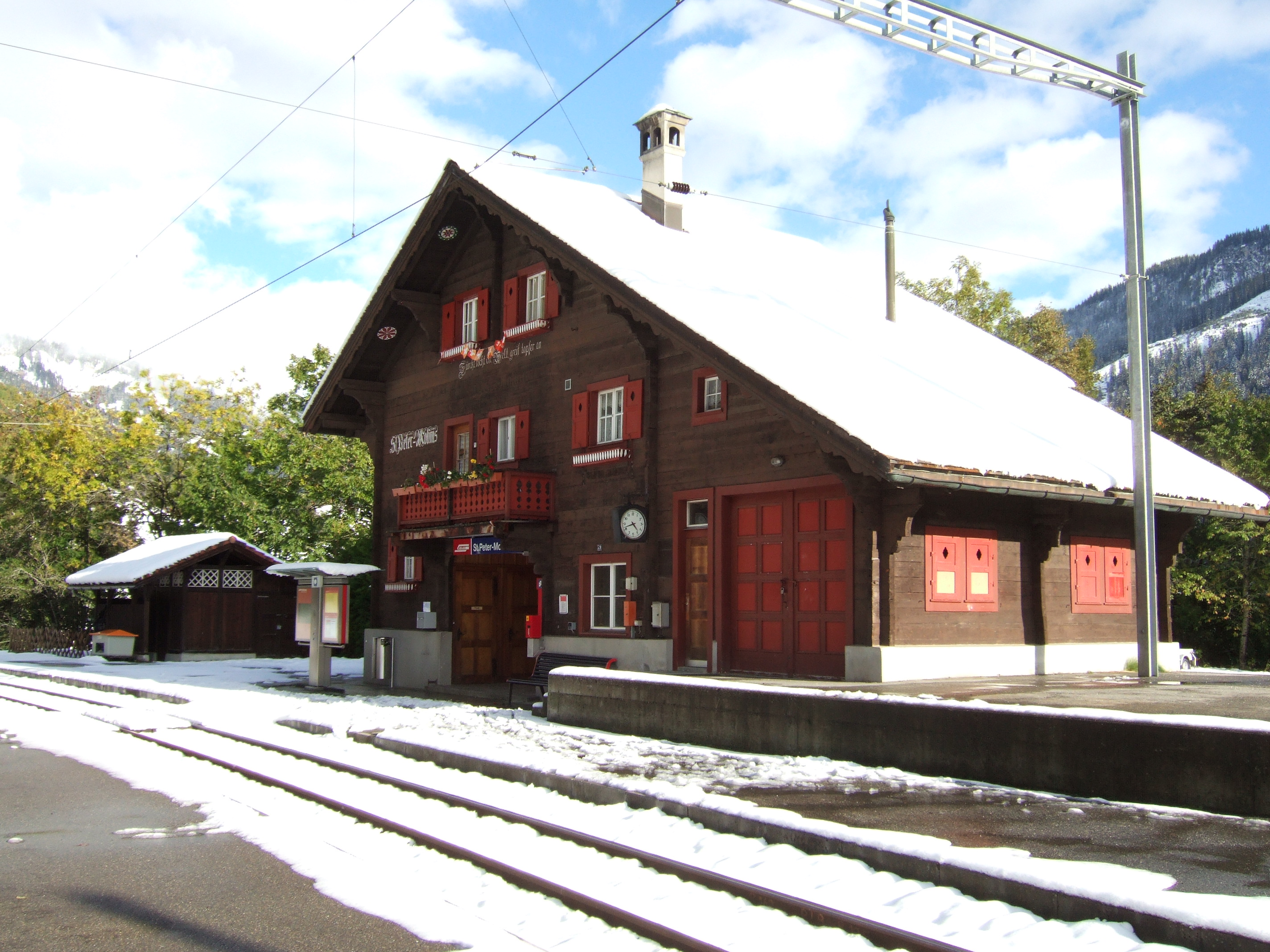 Sankt Peter-Molinis railway station, near Chur, Switzerland.